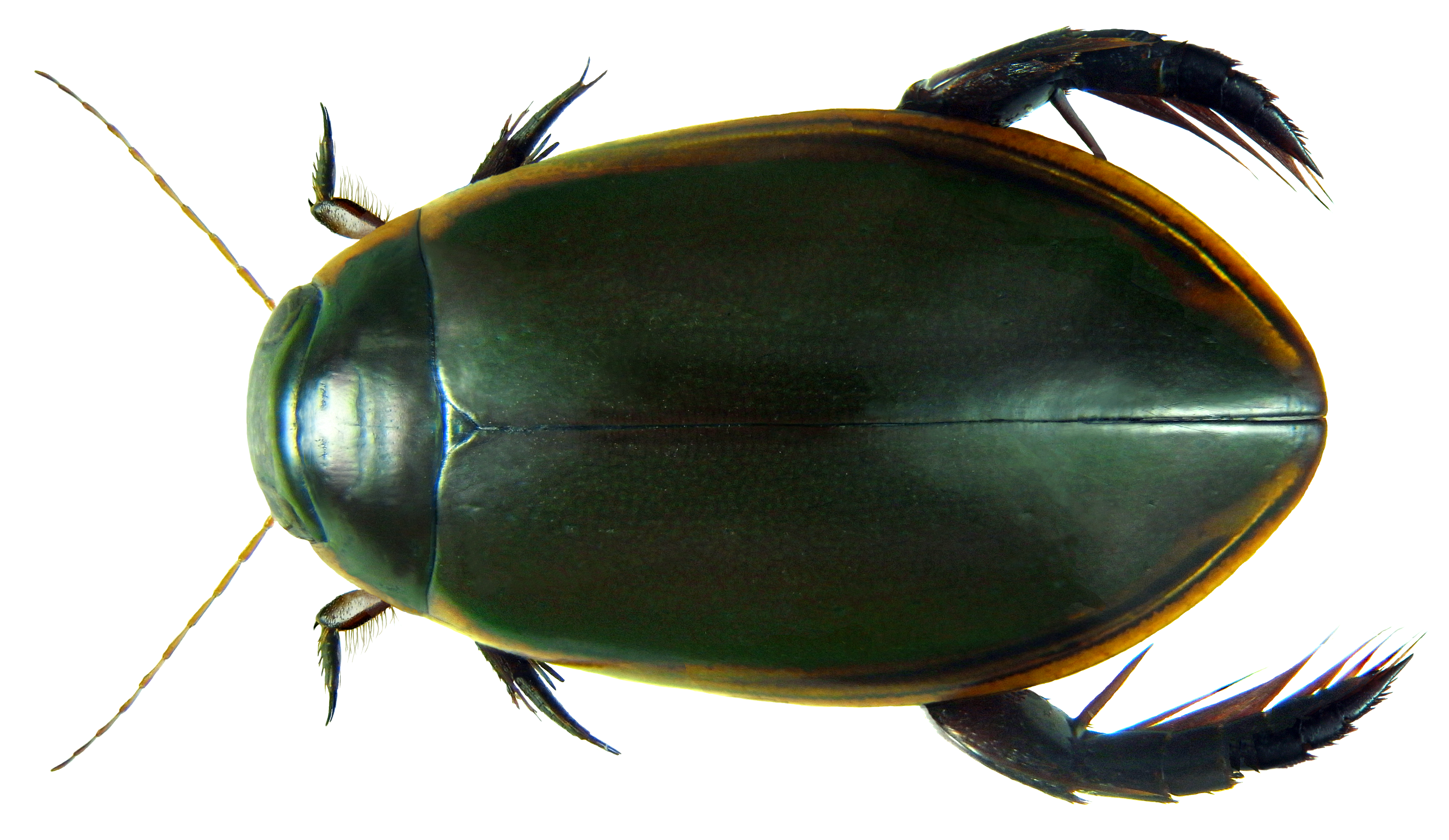 Dorsal view of Cybister fumatus Familie: Dytiscidae Groesse: 23,5 mm Fundort: Laos, Bolikhamsay Provinz, Ban Phone Kham, Nam Kading NPA Research Traiding Center, 250 m leg. M.Brancucci et al. 23.-29.V.2011; det. Hendrich, 2011 Photo: U.Schmidt, 2012